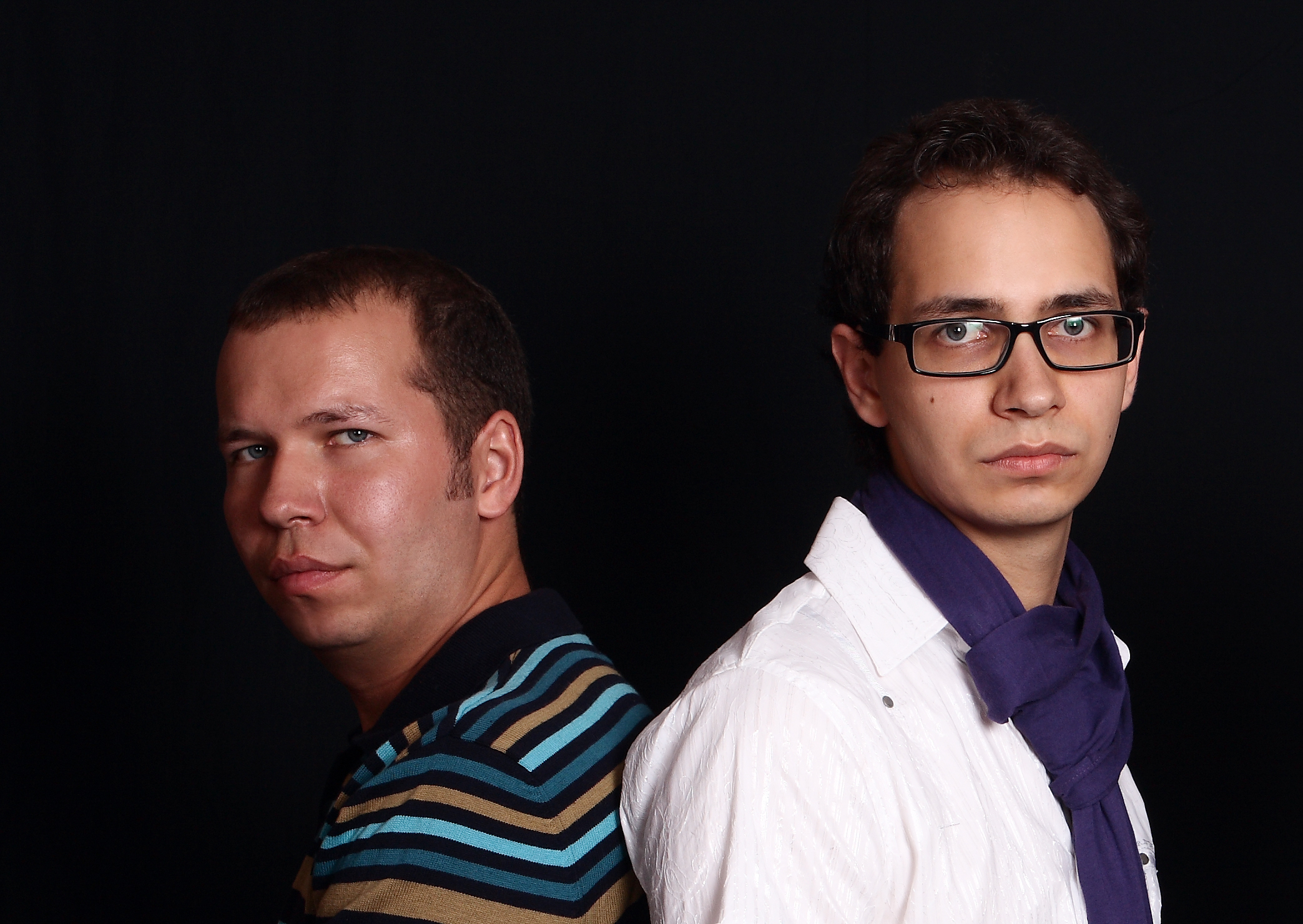 Moonbeam